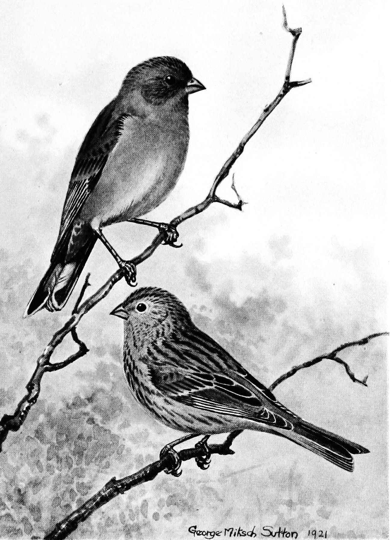 Catamenia alpica = Catamenia analis alpica (subspecies of the Band-tailed Seedeater) Adult male above, juvenile male below